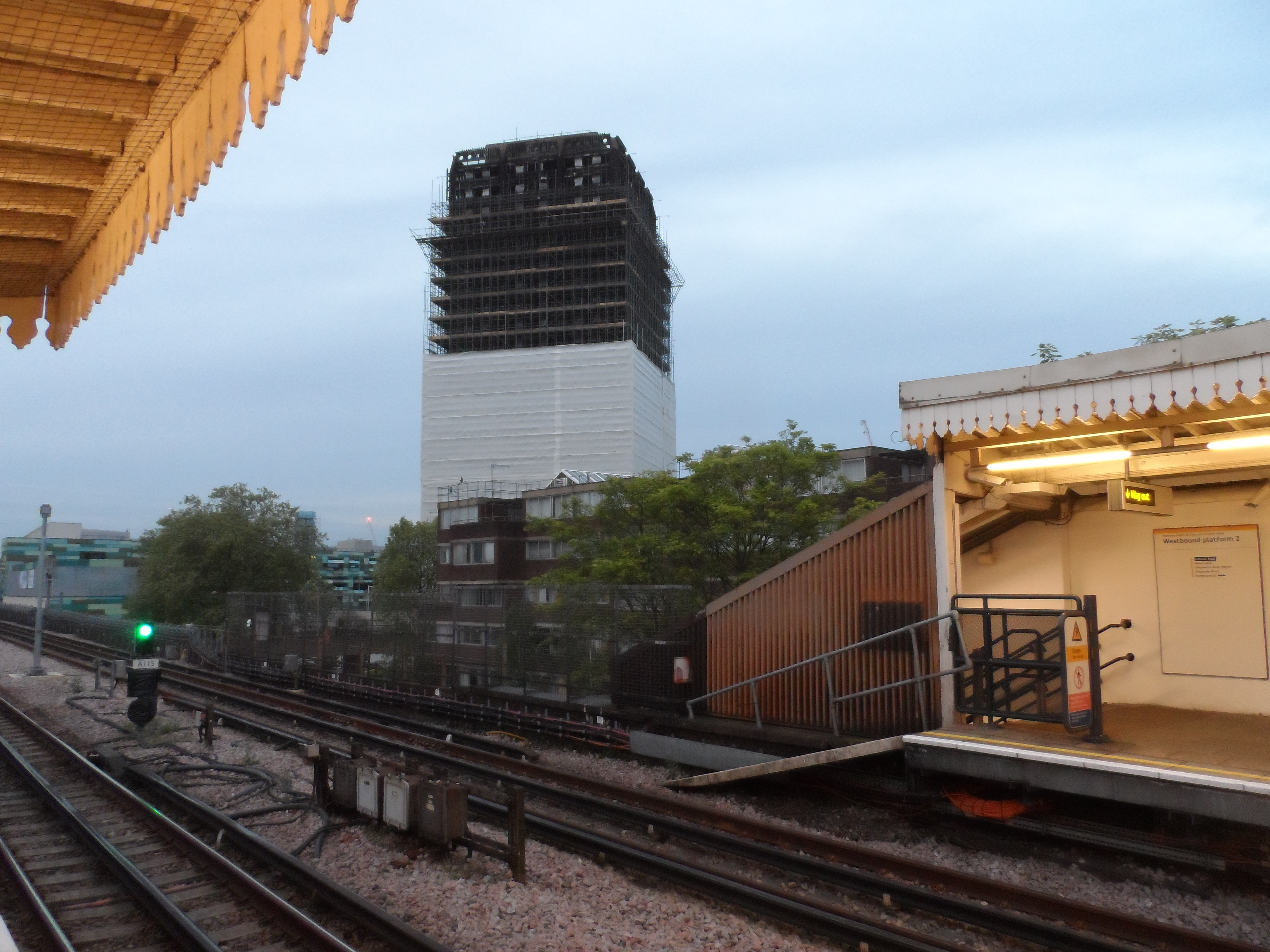 One of several views of Grenfell Tower, nearly 11 months after the fire, with scaffolding covering most of the building. This view, showing the west and south faces of the tower, was photographed from the eastern end of Latimer Road tube station's eastbound platform. Photographed on 9 May 2018.